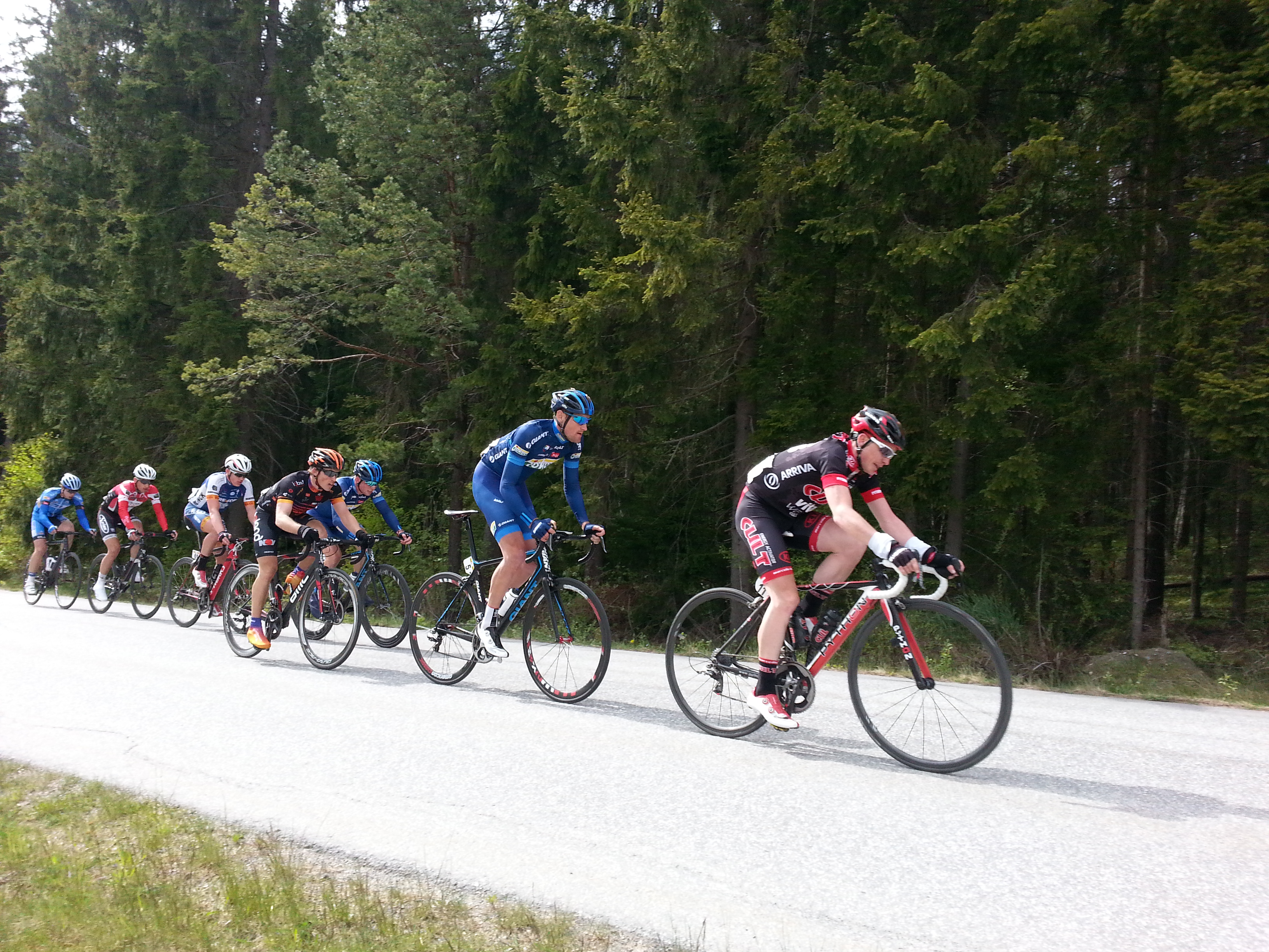 Ringerike Grand Prix 2014, a road bicycle race held annually near Hønefoss, in the region of Ringerike, Norway. 11 Lasse Bochman (DEN) in front of 5 Martin Olsen (NOR) and 14 Magnus Cort Nielsen (DEN).